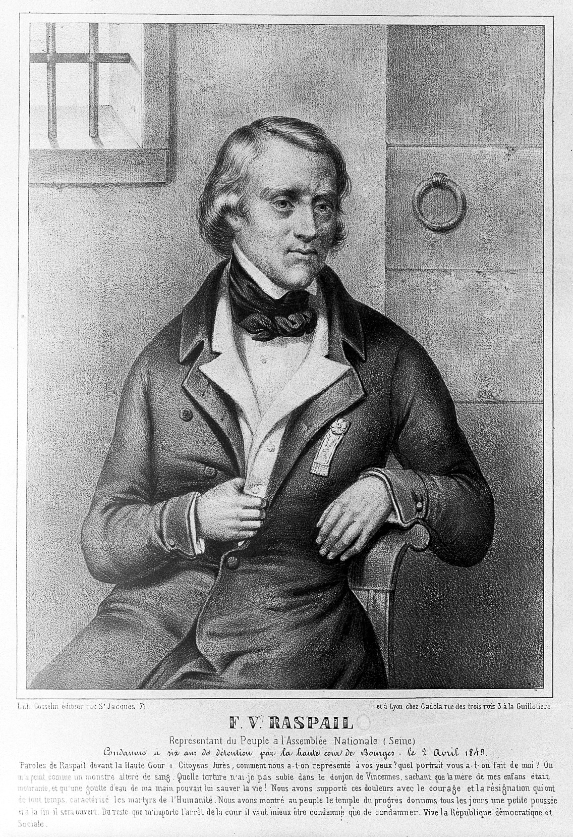 RASPAIL, Francois Vincent {1794-1878} Lithograph: portrait of F. V. Raspail, seated in prison cell; by Gosselin, 1849. Iconographic Collections Keywords: burgess, portraits 2441.4; raspail, francois vincent {179; Portraits; F.-V. Raspail